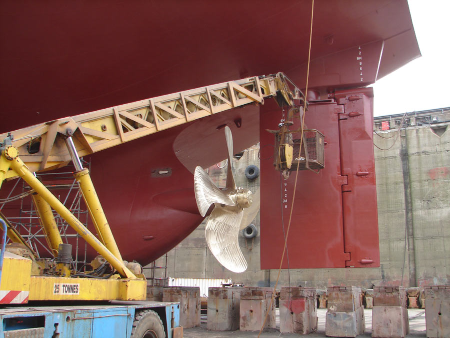 The stern of the oil/chemical tanker Bro Elizabeth in dry dock, showing the propeller and rudder.